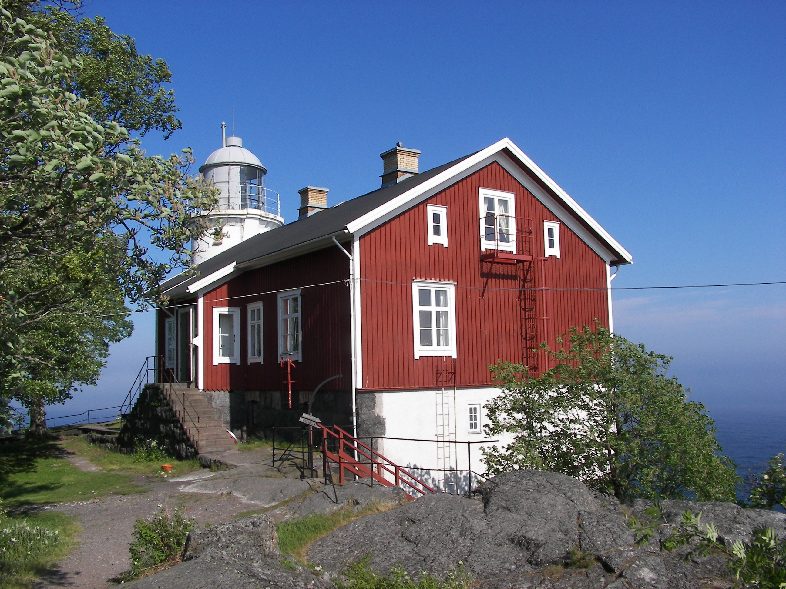 Högbonden, High Coast, Sweden - the lighthouse